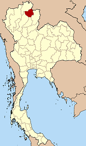 Map of Thailand highlighting Phayao province